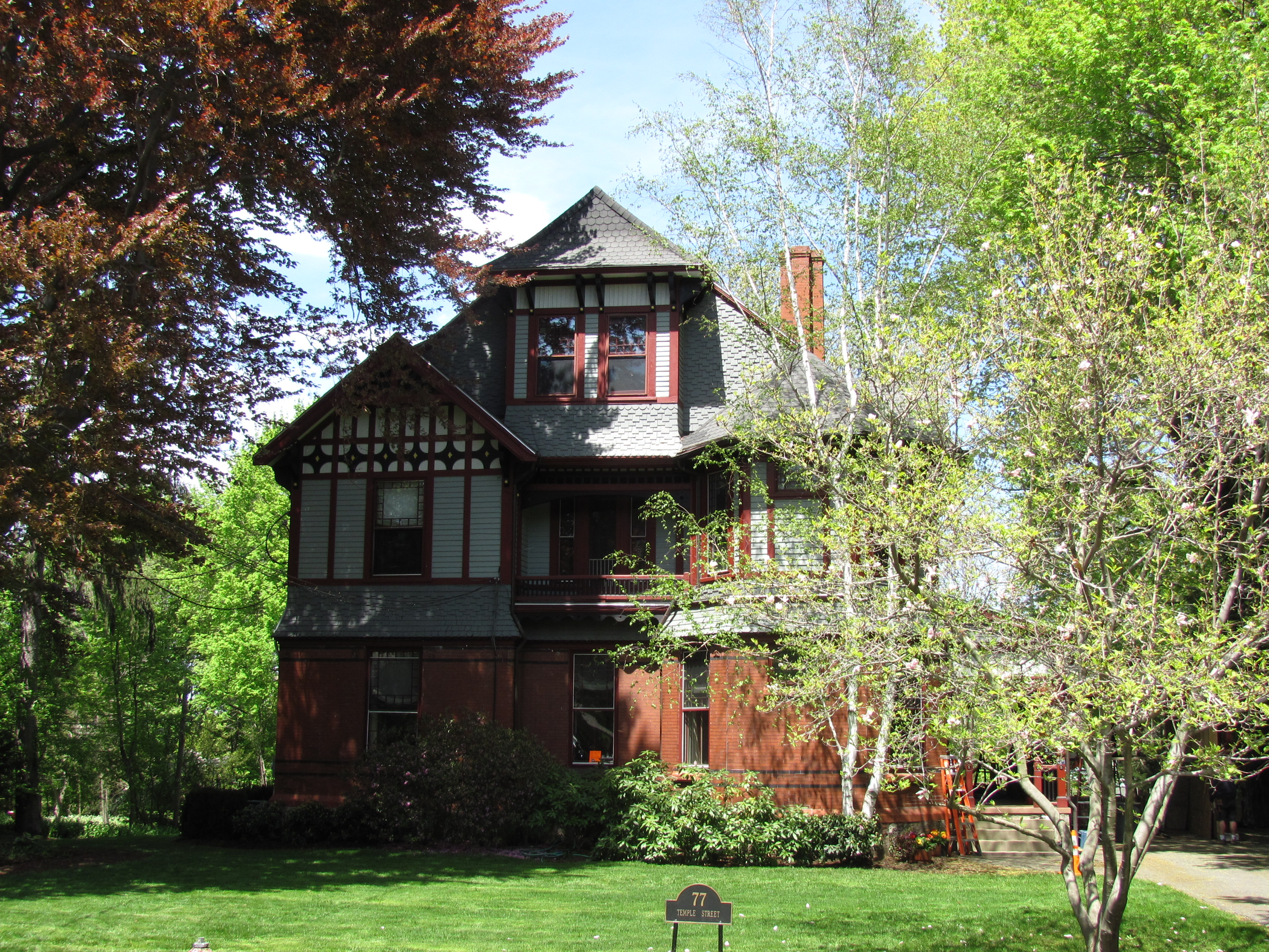 Joseph L Stone House, West Newton Massachusetts